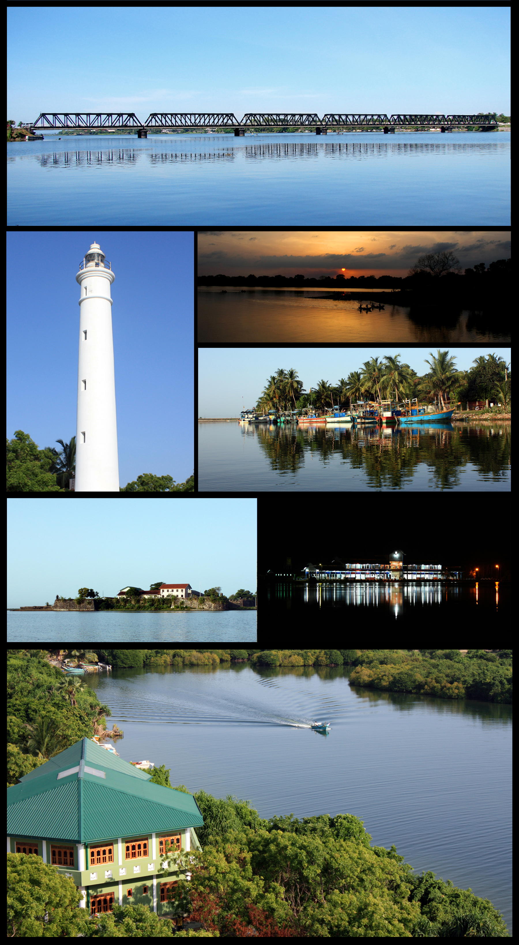 From top left: Kalldy Bridge, lighthouse, Batticaloa Fort, Batticaloa lagoon, Bus stand, Fishing boats, Unnichchai Tank